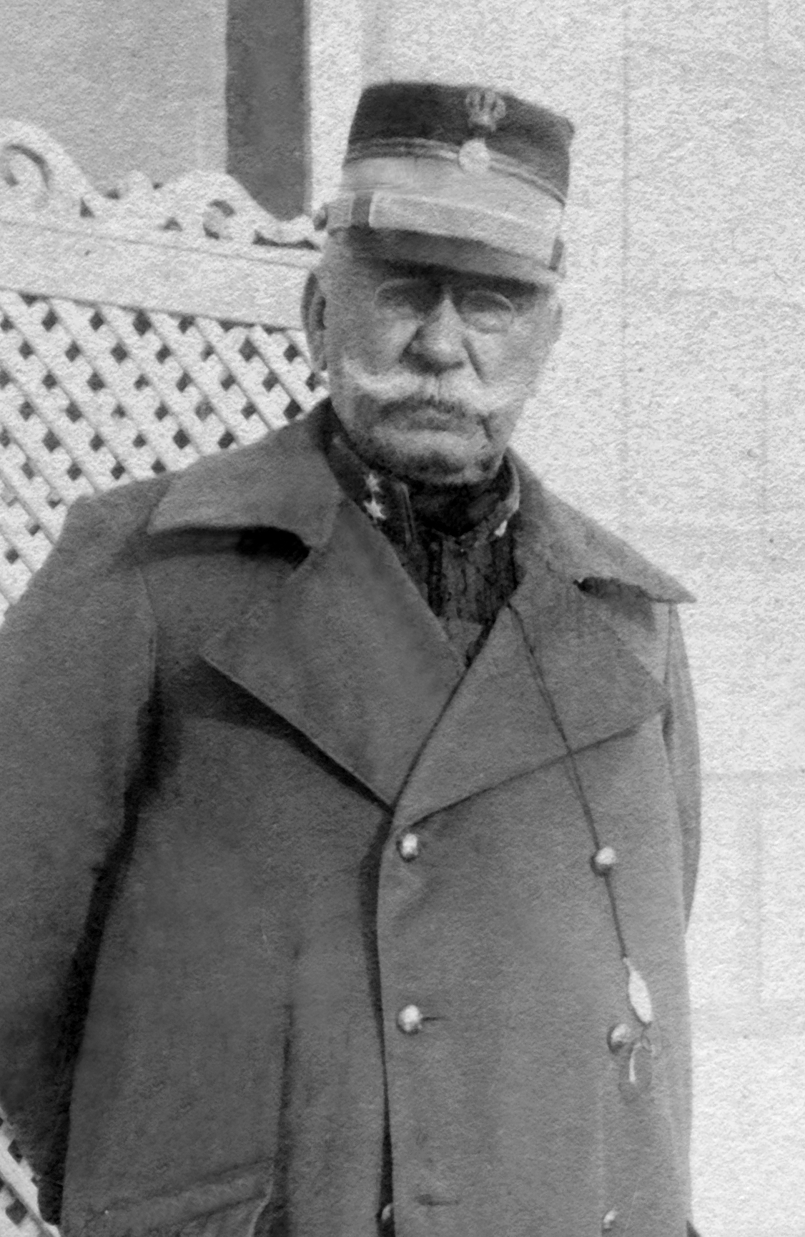 General Konstantinos Sapountzakis in Philippiada, during the First Balkan War. Photograph by Romaides & Zeitz of 1913.